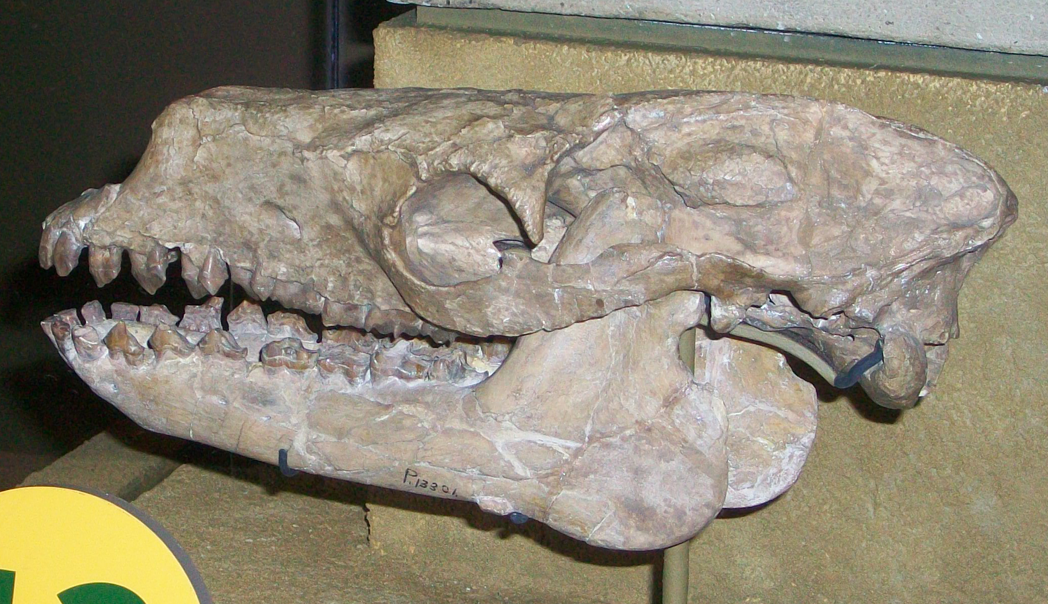 Skull of Cramauchenia insolita in the Field Museum of Natural History.